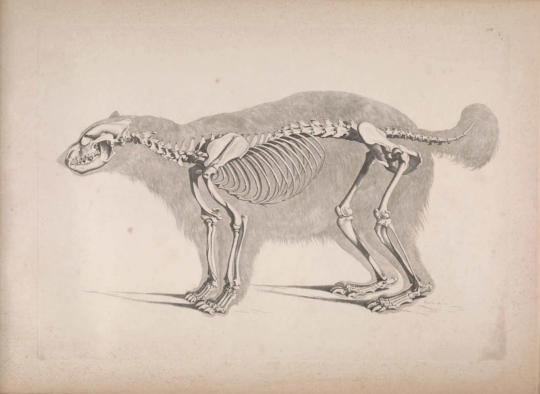 skeleton of wolverine